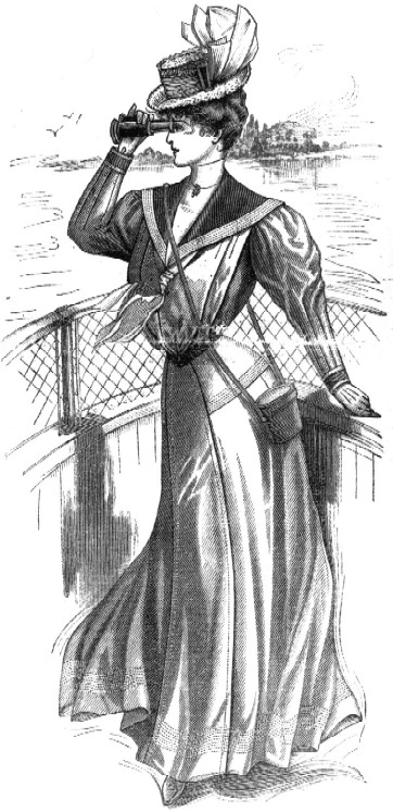 woman's fashion during Victorian Era, 1900s